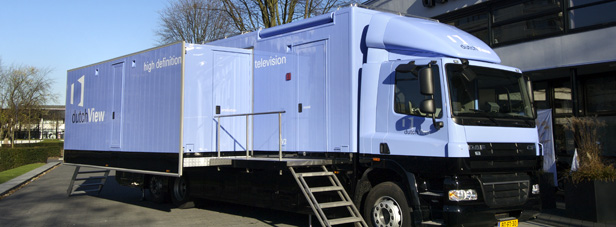 This is a pics of the interior of the High Definition OBV (Outside Broadcast Van) of DutchView BV (Media Park, Hilversum, The Netherlands).